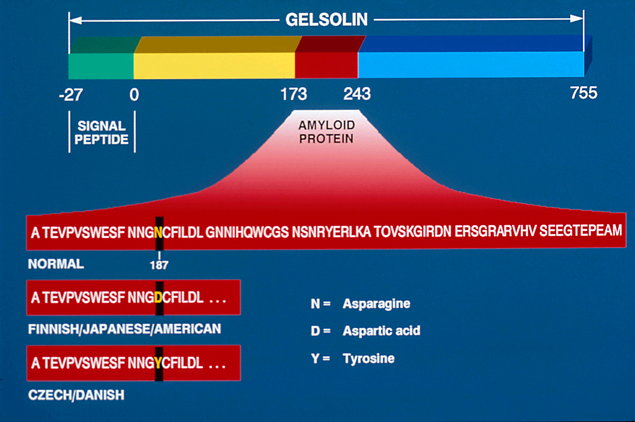 Lattice corneal dystrophy type II. Diagram depicting gelsolin and the amyloid protein derived from it because of mutations in codon 187 of the GSN gene. Klintworth Orphanet Journal of Rare Diseases 2009 4:7